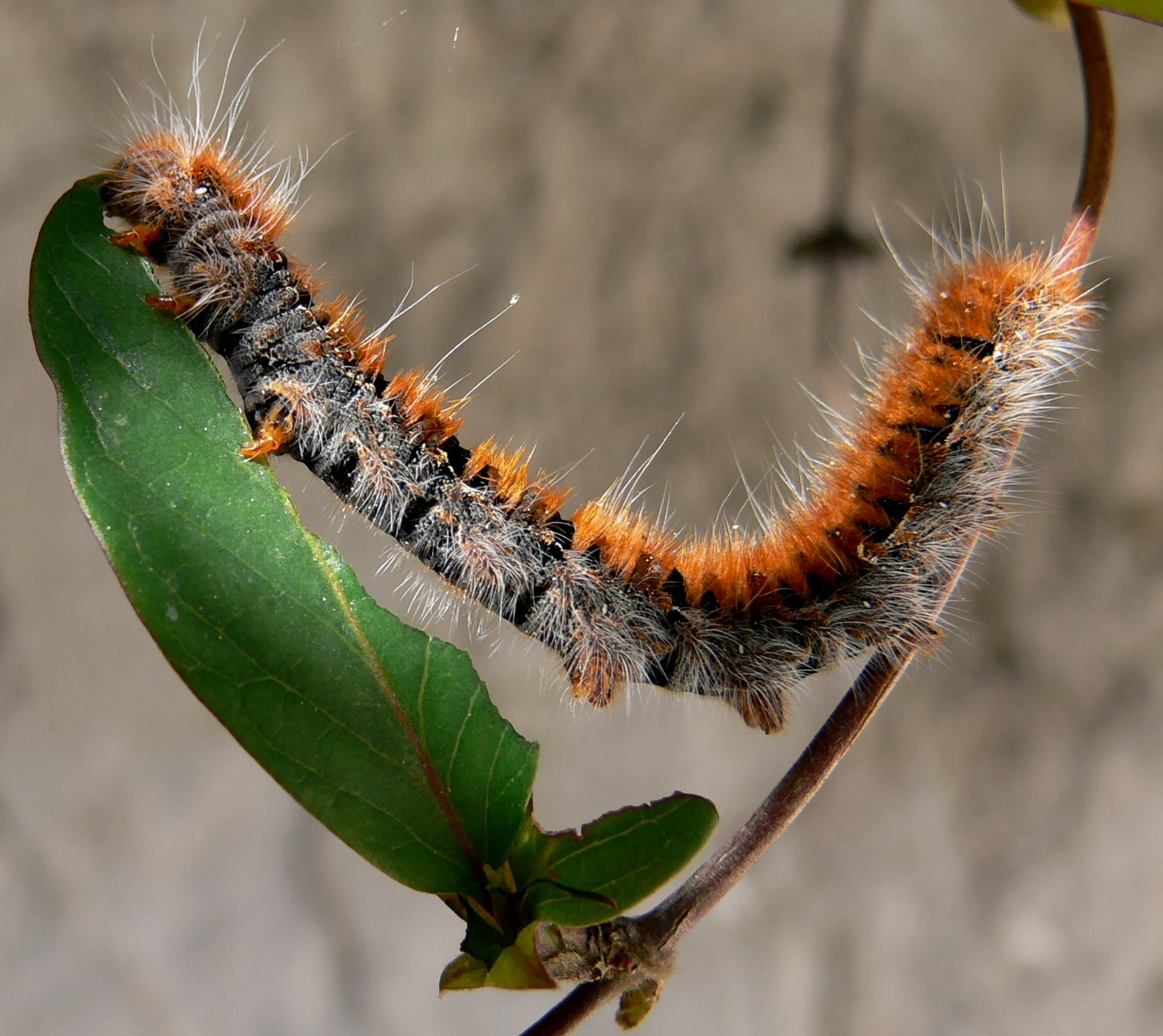 Fox moth caterpillar eating a honeysuckle leaf.